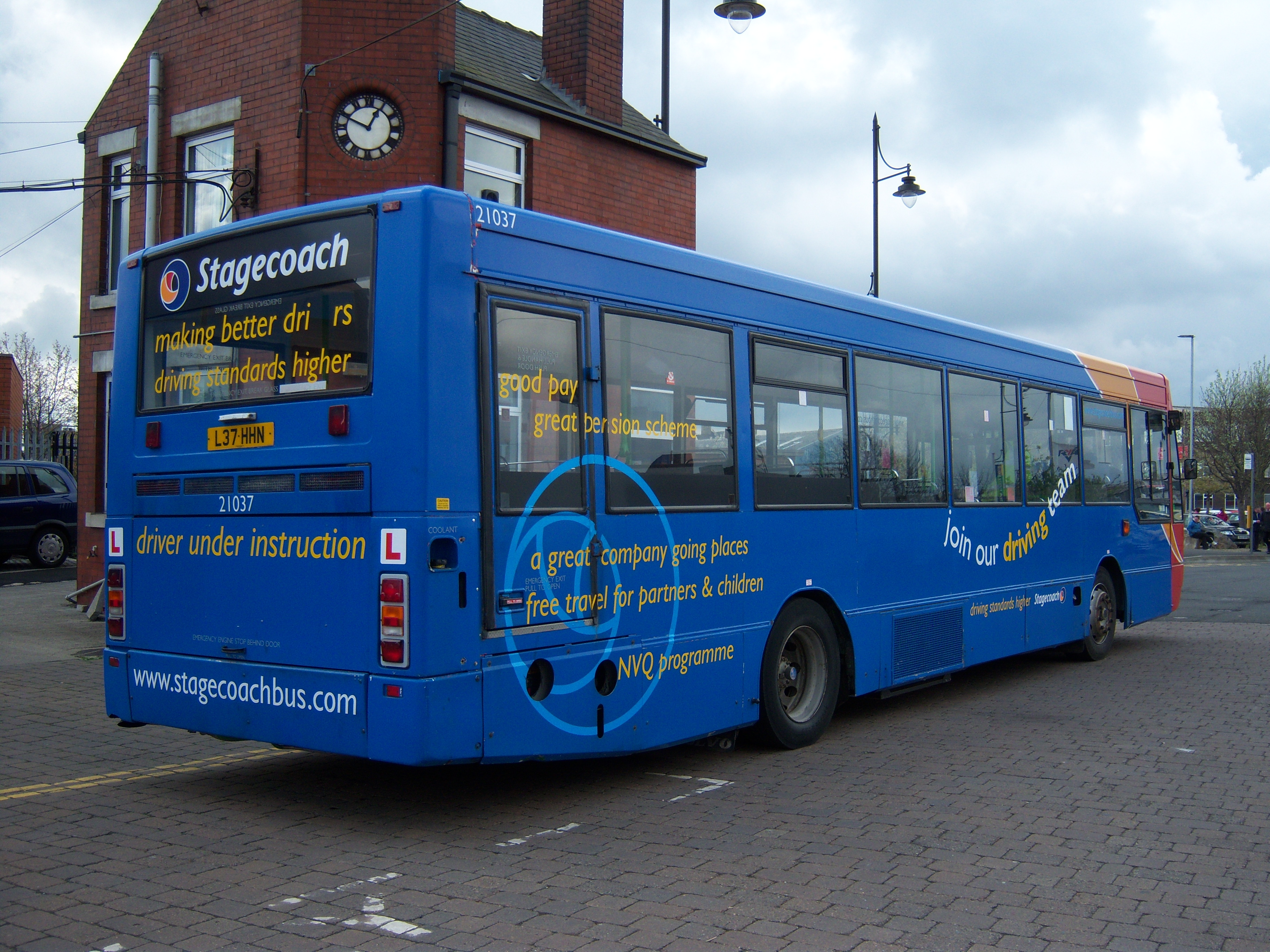 Stagecoach North East Stockton depot based driver training bus 21037 (reg. L37 HHN), a 1994 Volvo B10B single-decker with Plaxton Verde bodywork, pictured at the 2012 Teeside Running Day. It's parked in the Ferry Road staging area facing west, where it was acting as the static rally control point (see the rally categories for further operational/location details).